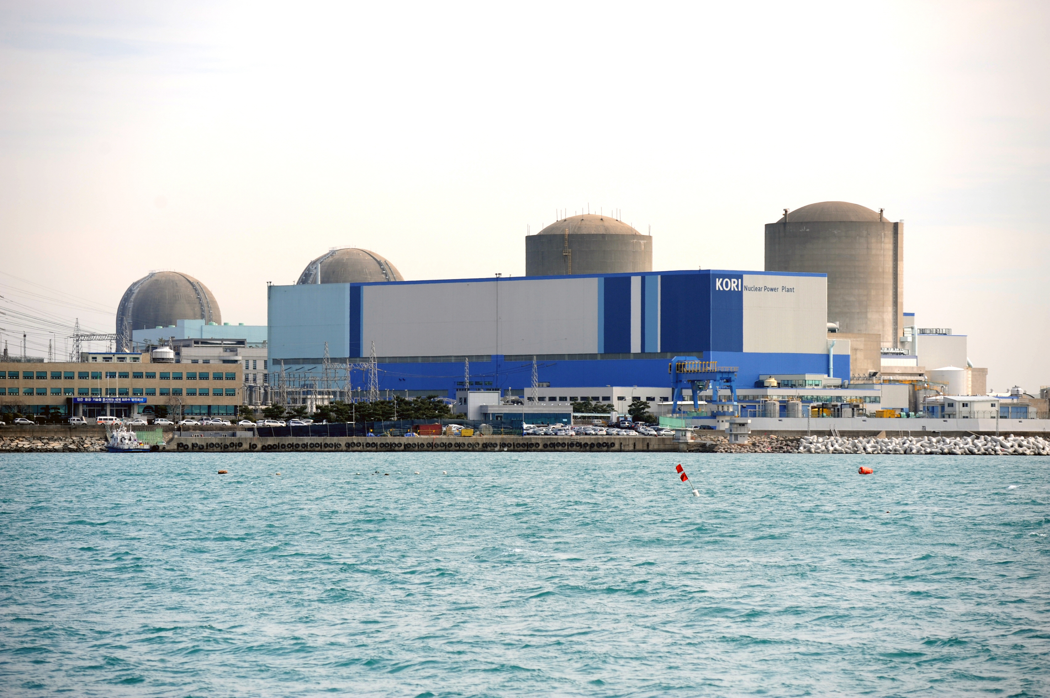 Korea Kori Nuclear Power Plant Photo Credit: Korea Kori NPP